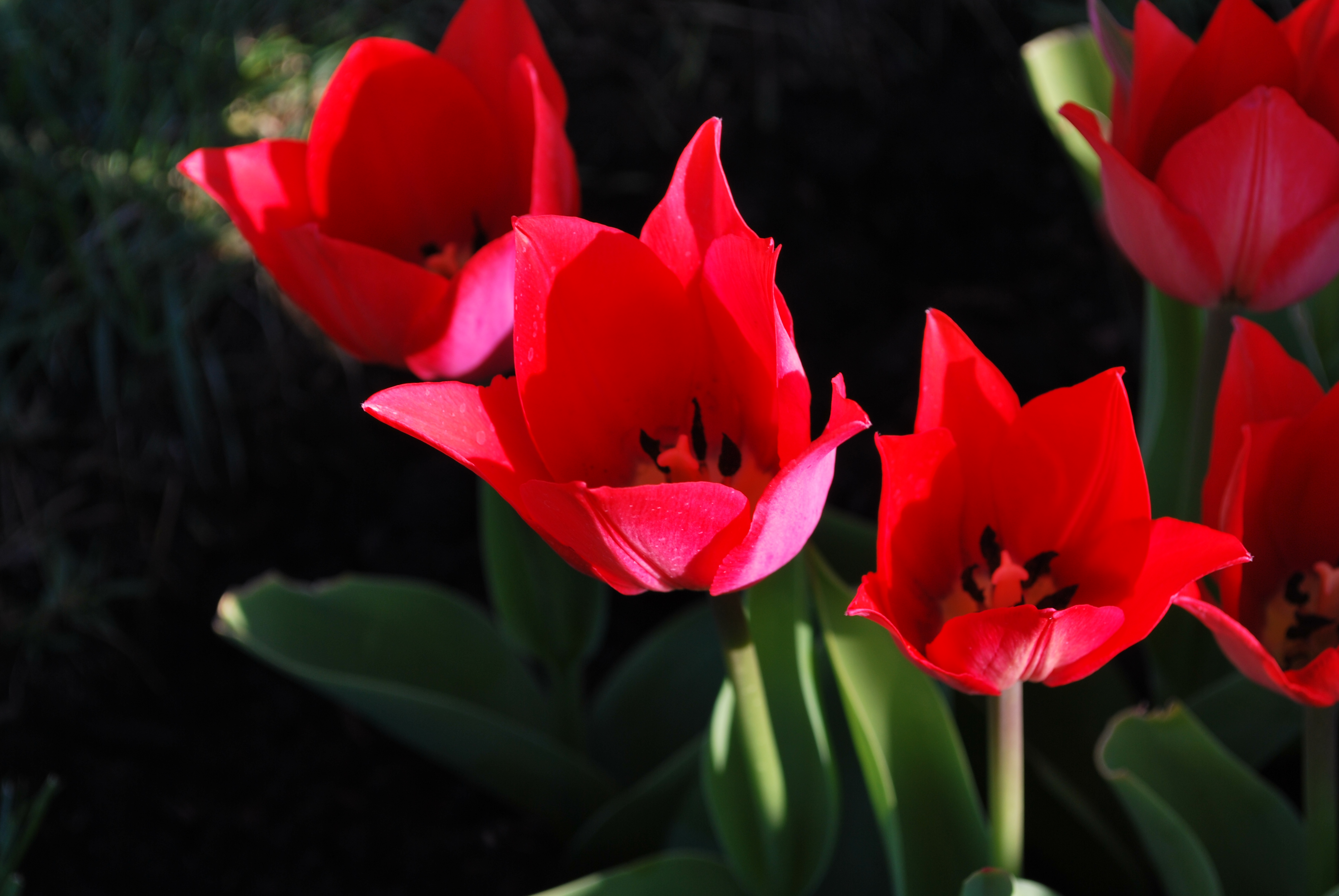 A view inside some tulips, showing the stamens and stigmas